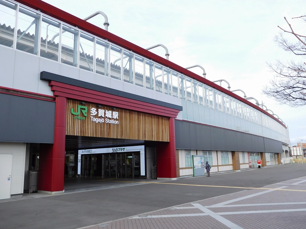 The south entrance to Tagajo Station on the Senseki Line